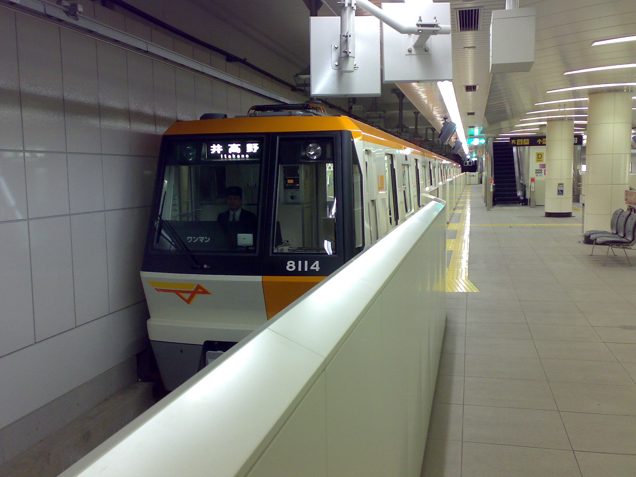 This line is the newest subway line of Osaka. Service began last year. Osaka, Japan.